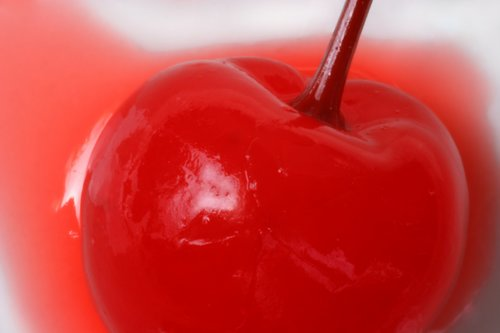 A macro photo of a Maraschino cherry, taken with my Fuji S7000